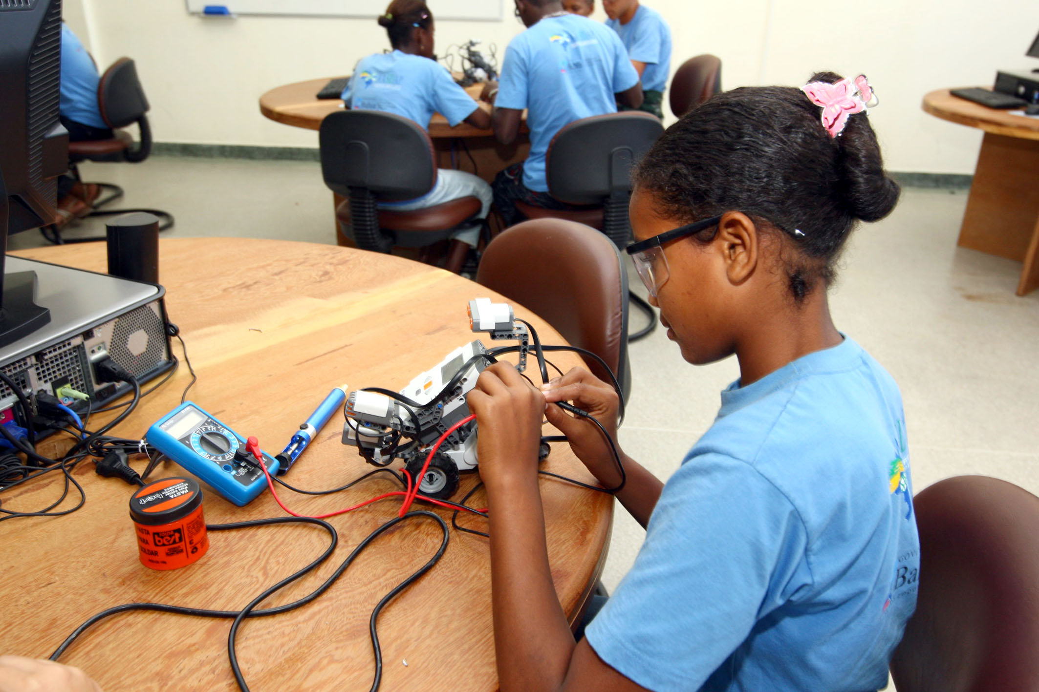 The Serrinha Center for Scientific Education (Centro de Educação Cientifica de Serrinha) in the Central Region of Brazil. Foto: Manu Dias/AGECOM